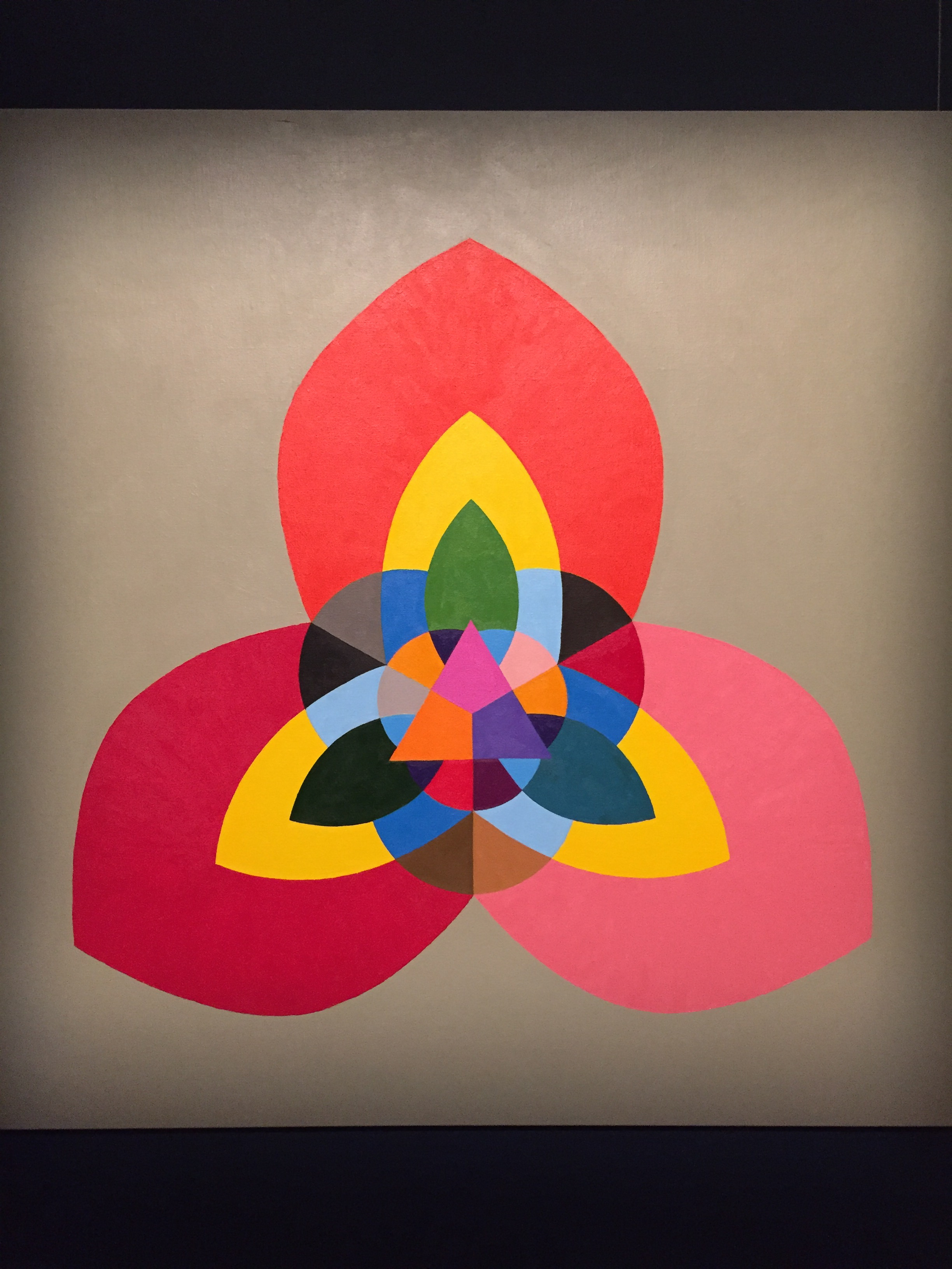 Acrylic Paint on Linen Canvas 1150mm x 1150mm x 300mm